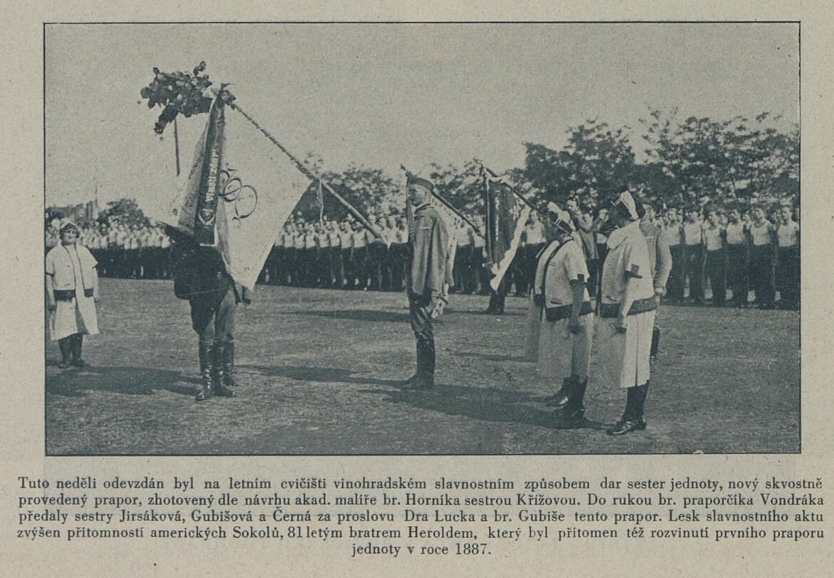 Handing over of a Sokol flag, Prague, 1926